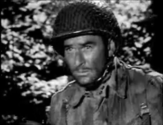 Actor Errol Flynn in the trailer for the American war film Objective, Burma! (1945).